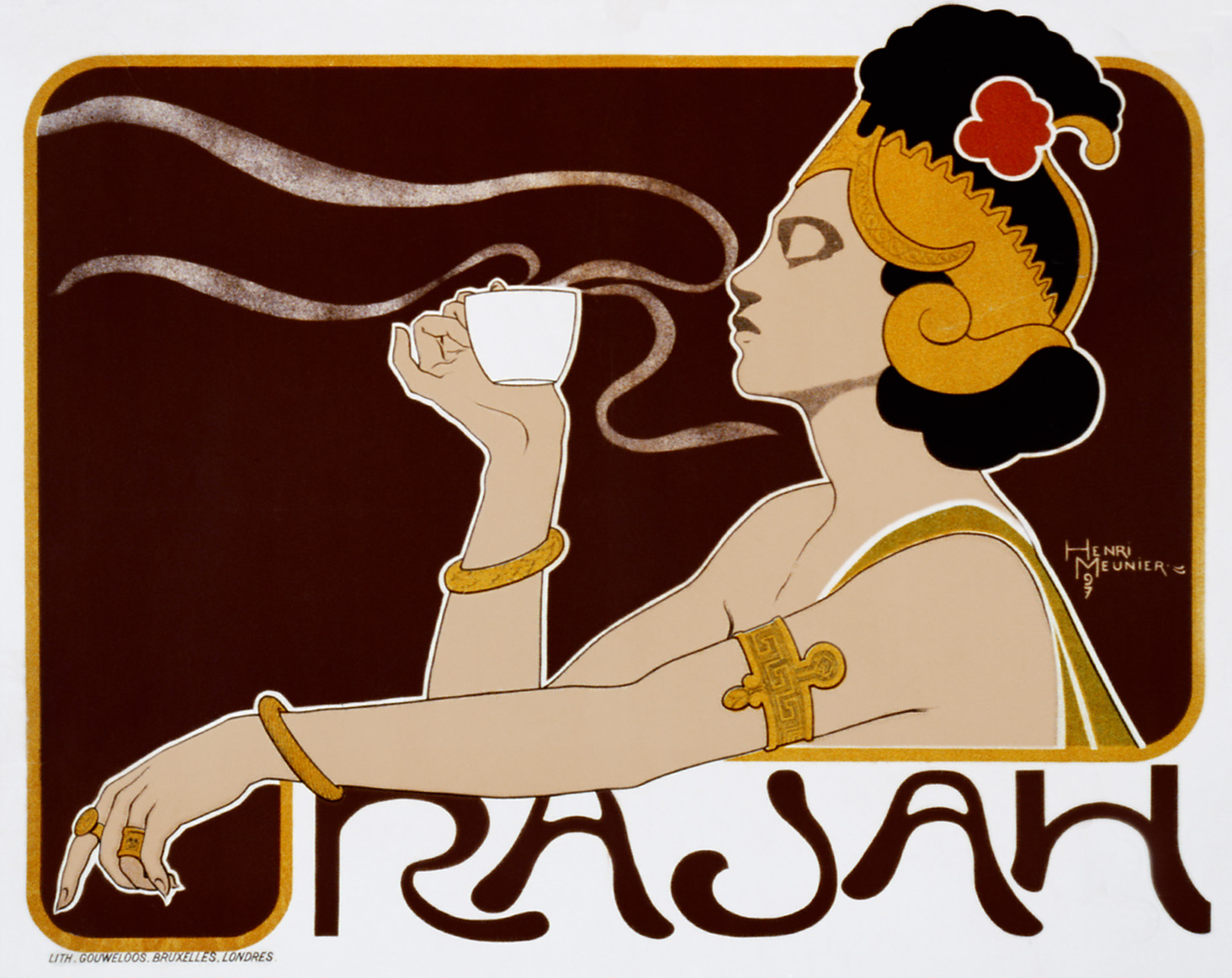 Poster showing woman holding up glass of coffee [Rajah brand].